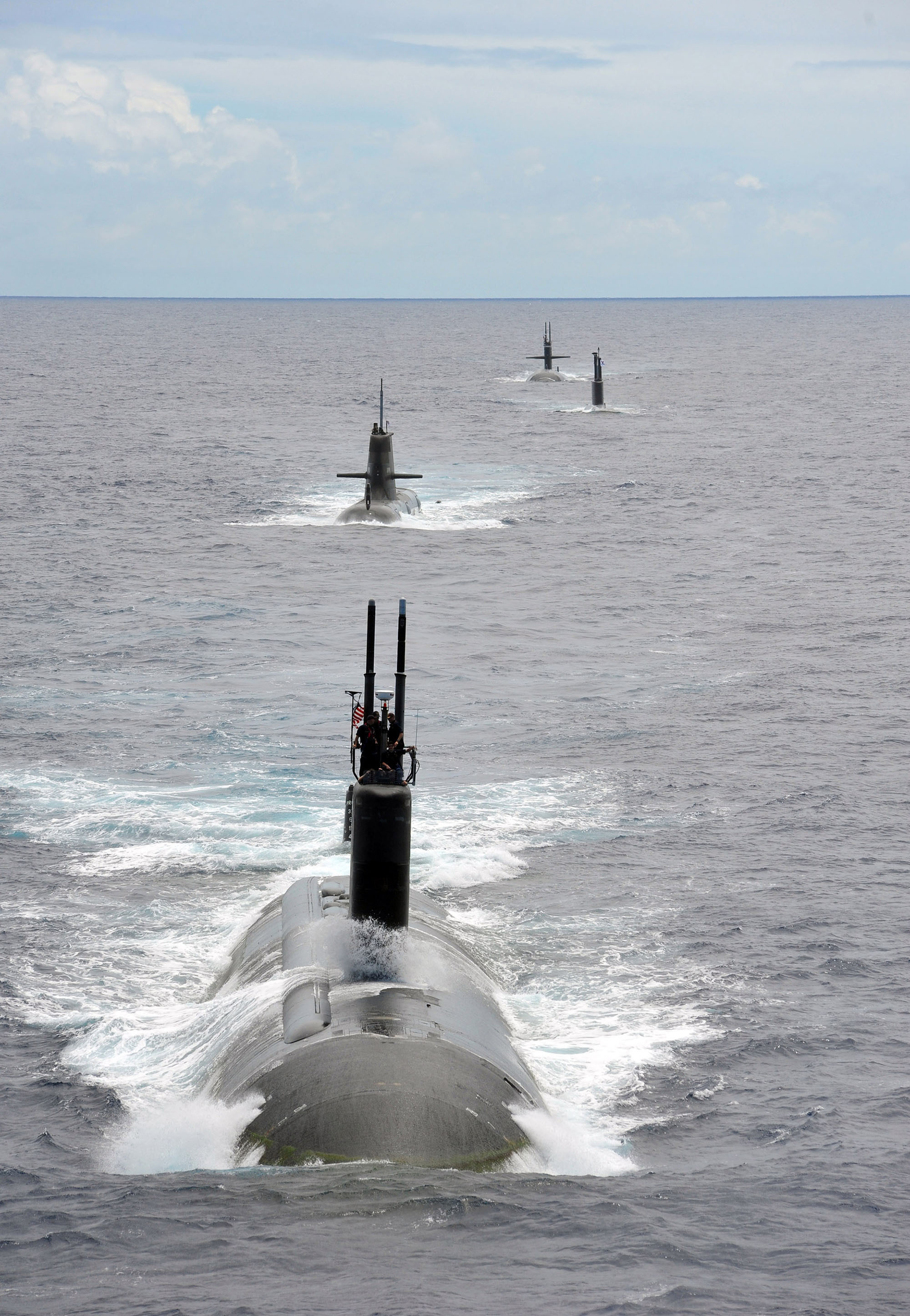 The Los Angeles class fast attack submarine USS Charlotte (SSN 766) steams in a close formation with submarines from partner nations during Rim of the Pacific (RIMPAC) Exercise 2014.